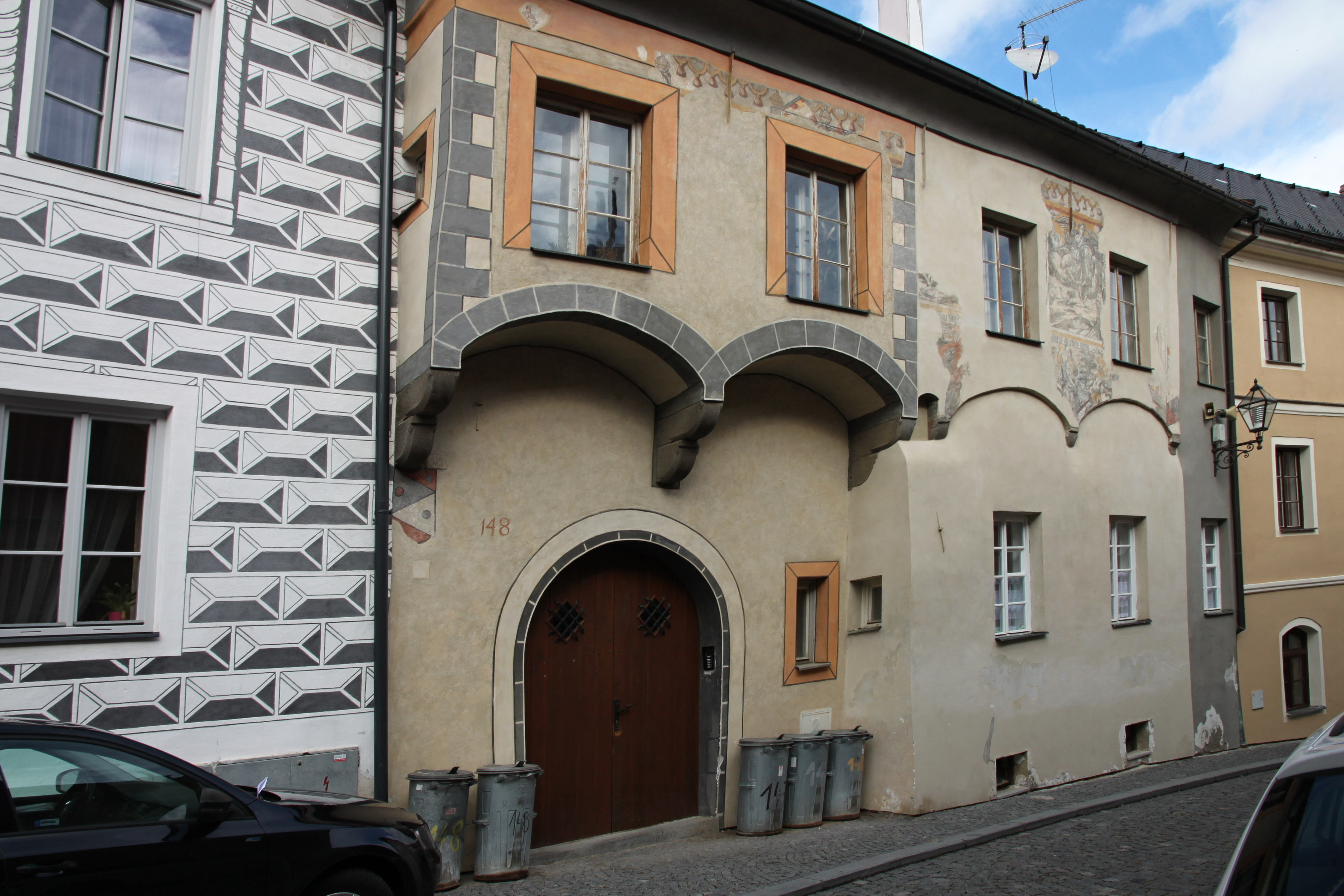 House No. 148 in Neumannova street in Prachatice. South Bohemian Region, Czechia.